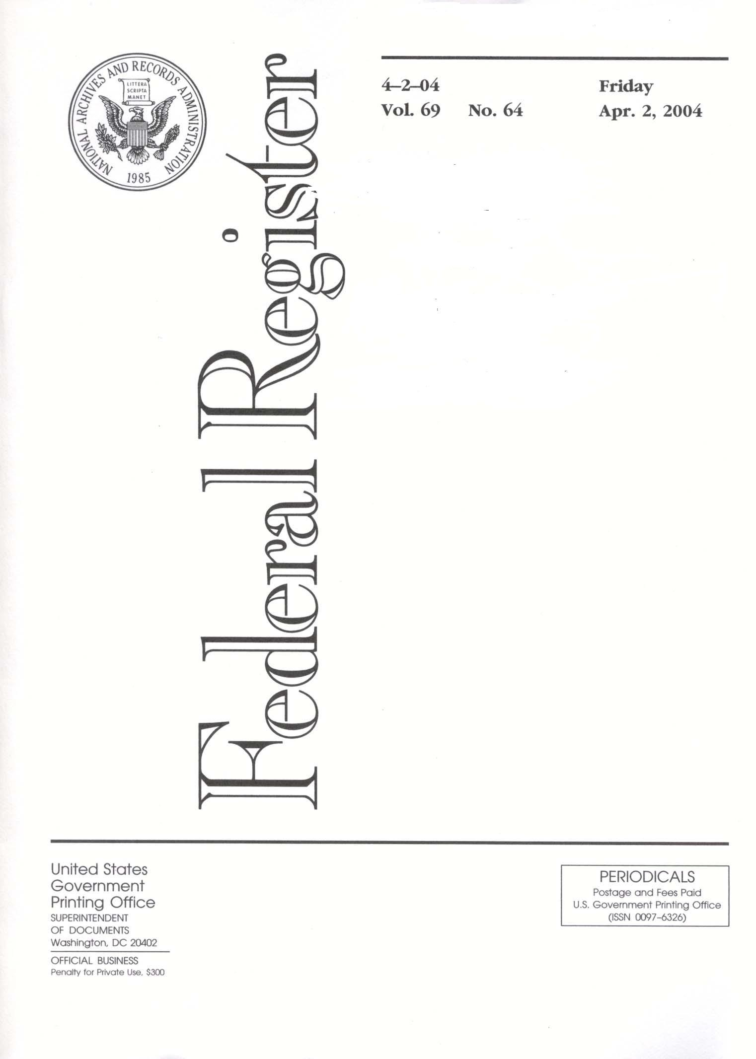 federal register - u.s. gov image - no copyright